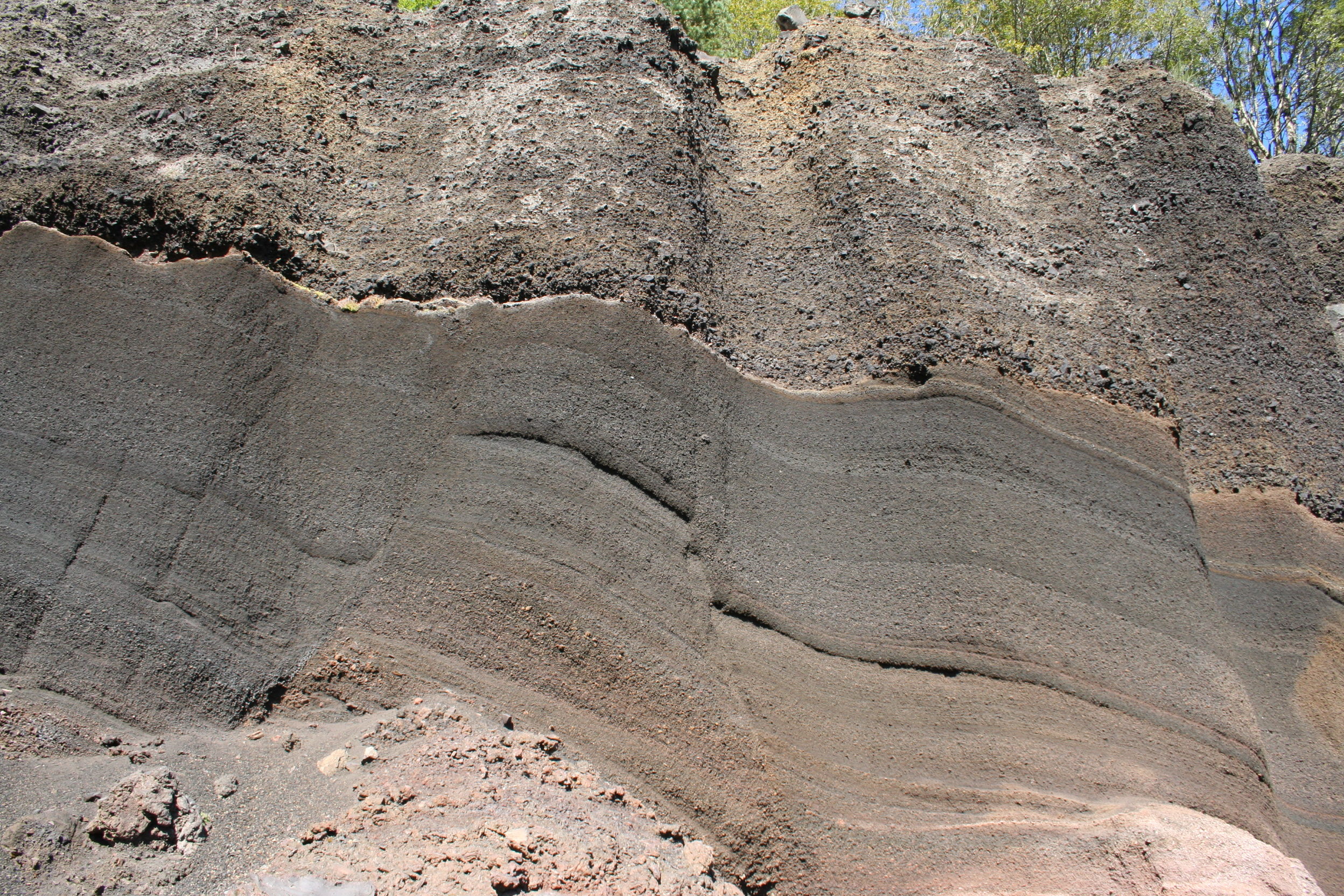 Faults in loose volcanic rock, Volcan de Lemptegy, Massif Central, France.